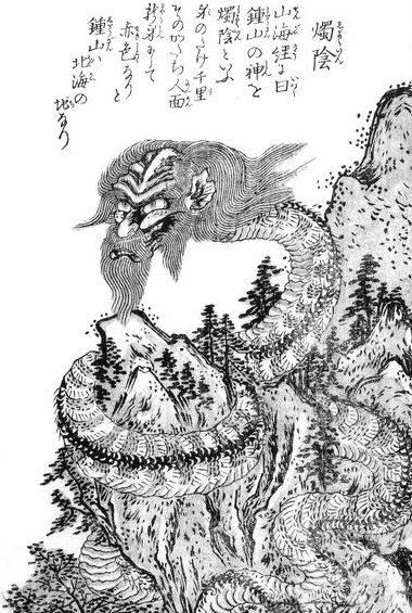 Shokuin (燭陰, Zhuyin, the spirit of China's Purple Mountain) from the Konjaku Hyakki Shūi (今昔百鬼拾遺)